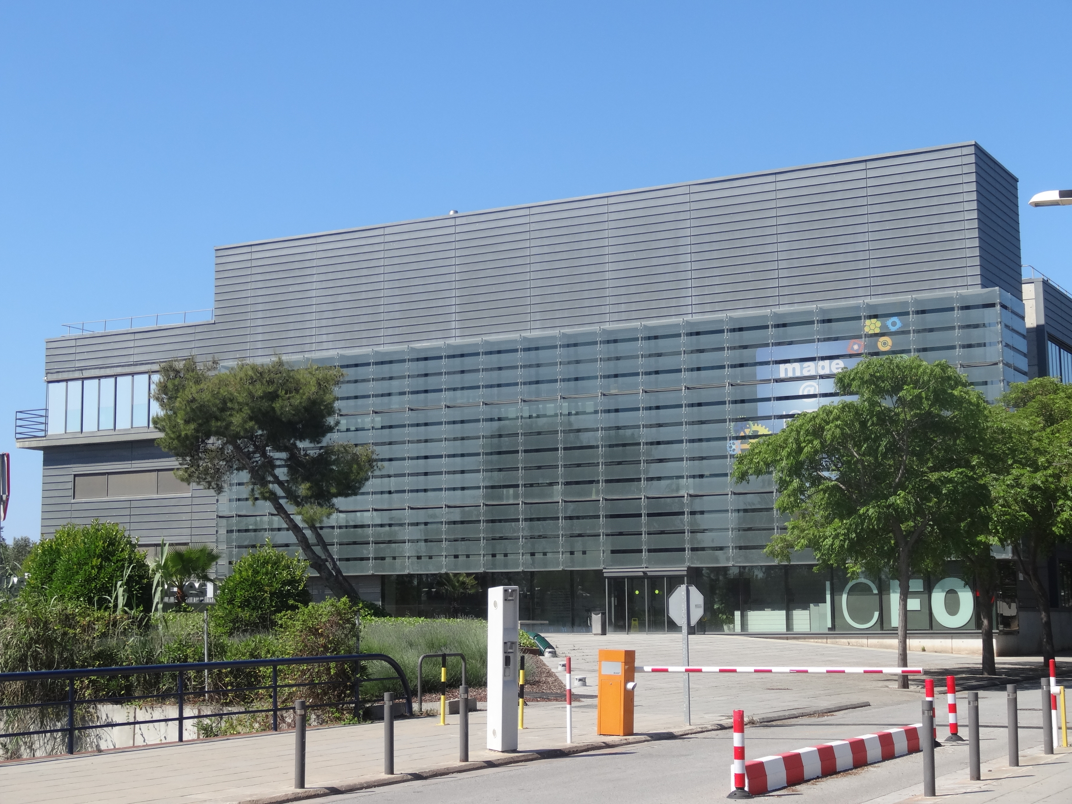 ICFO – The Institute of Photonic Sciences. Headquarters at Parc Mediterrani de la Tecnologia.